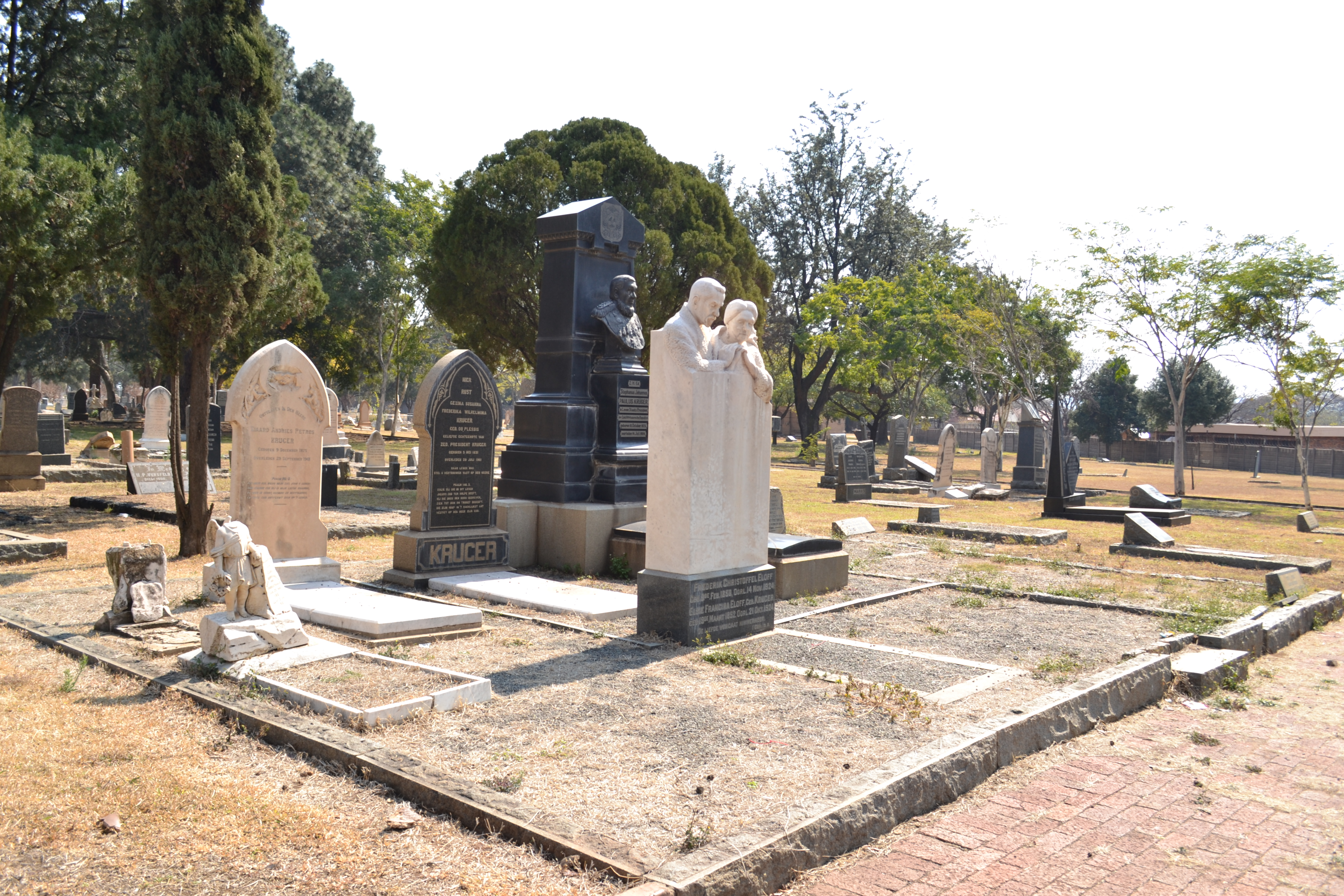 Paul Kruger Church Street Cemetery in Pretoria This media shows a South African Protected Site with SAHRA file reference 000000.